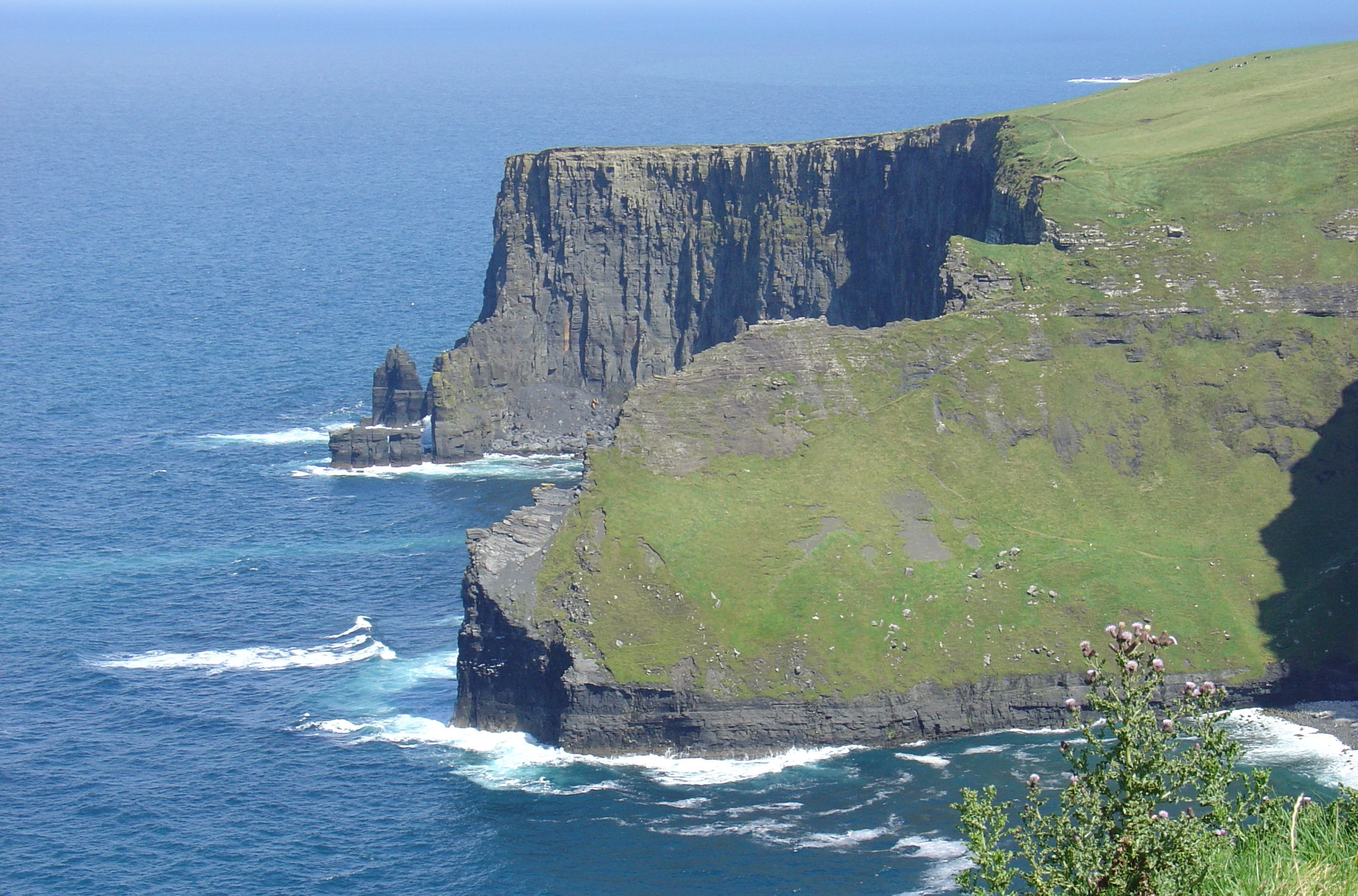 Cliffs of Moher